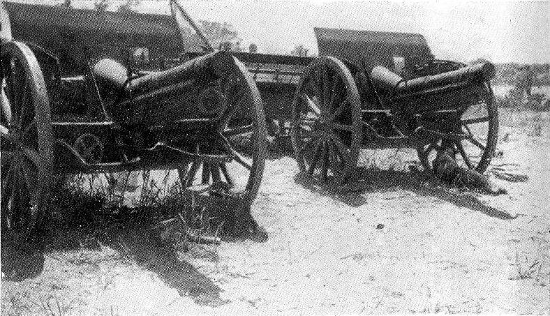 Two Krupp Guns captured by the Wellington Mounted Rifle Regiment during the First Battle of Gaza in March 1917